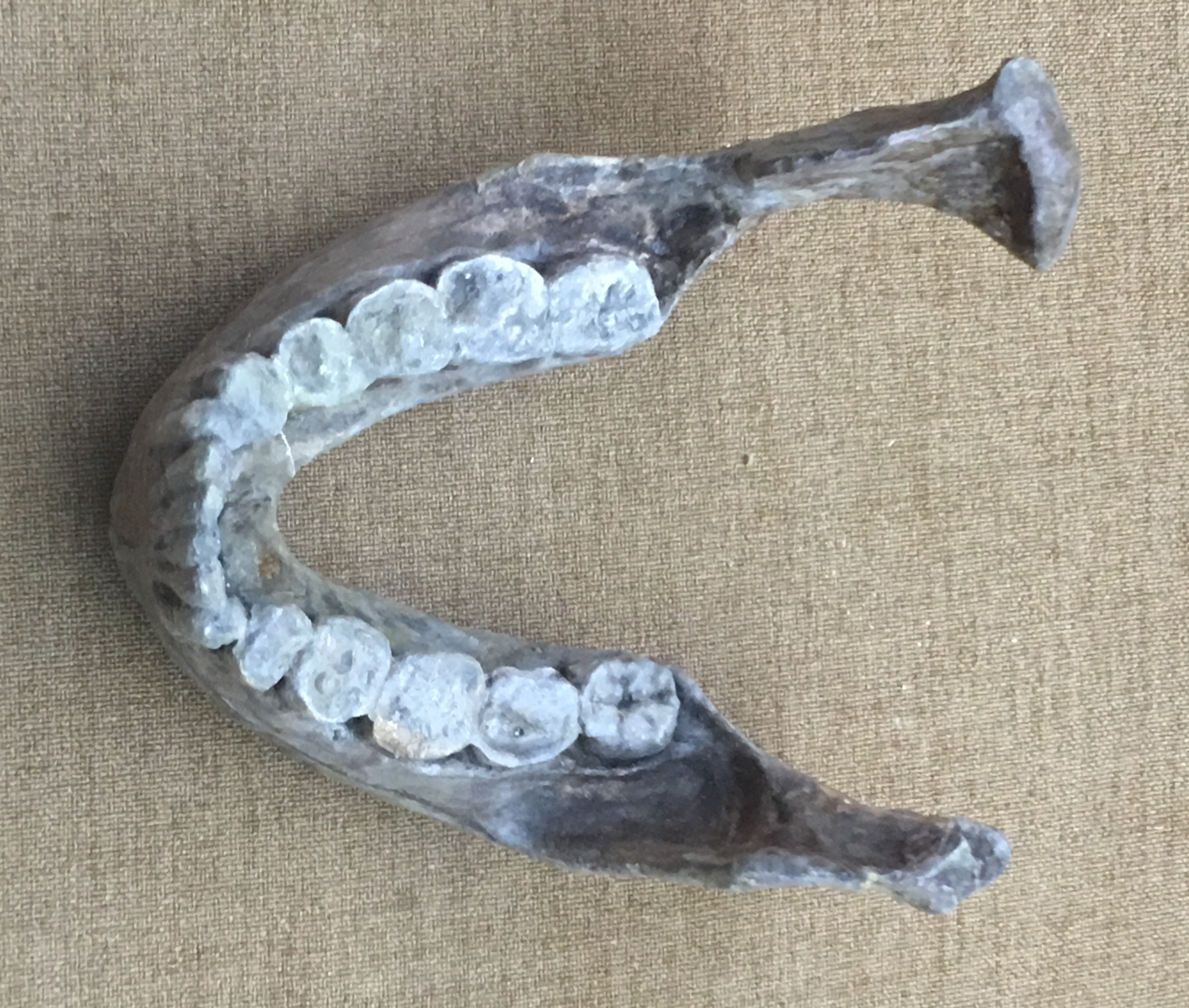 Hominid fossil reconstruction in the Beijing Museum of Natural History - China, July 2017. Lower jaw.